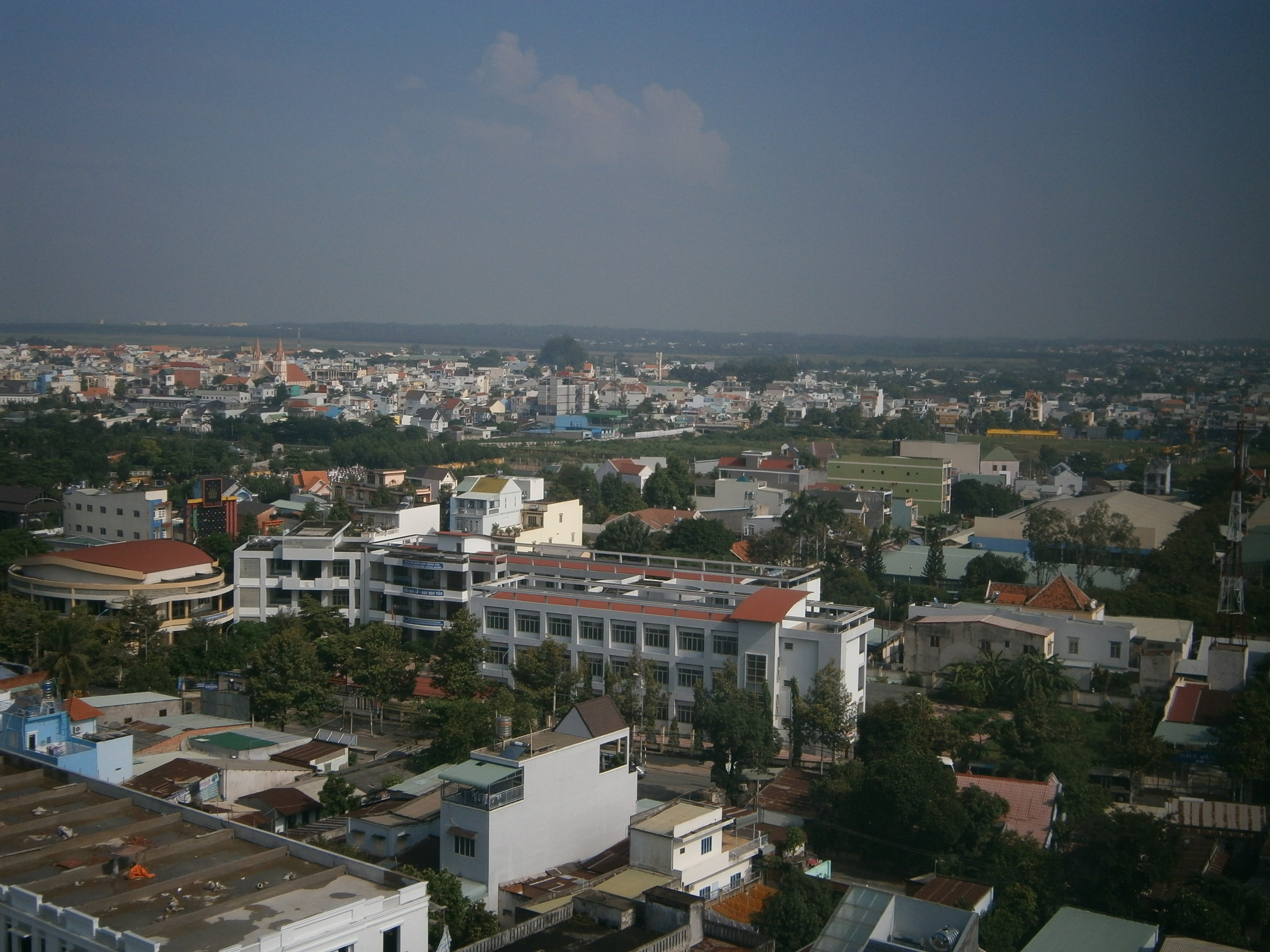 Aurora Hotel View of Bien Hoa